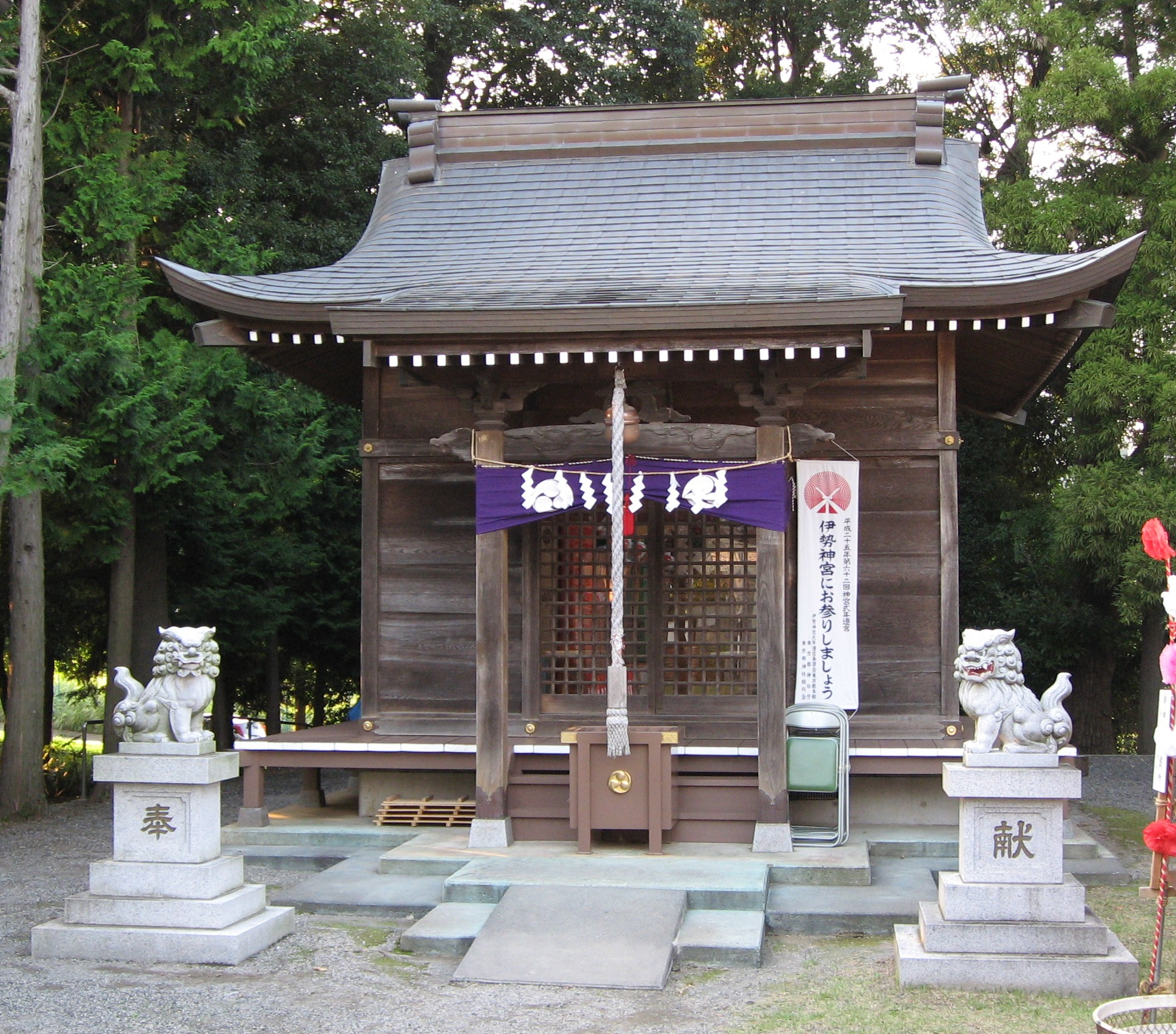 Tate Shinto Shrine, Inagi, Tokyo, Japan.